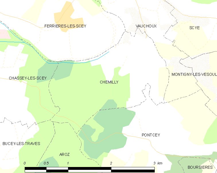 Map of French municipality